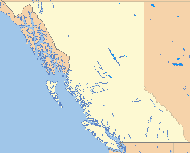 Locator Map of British Columbia, Canada